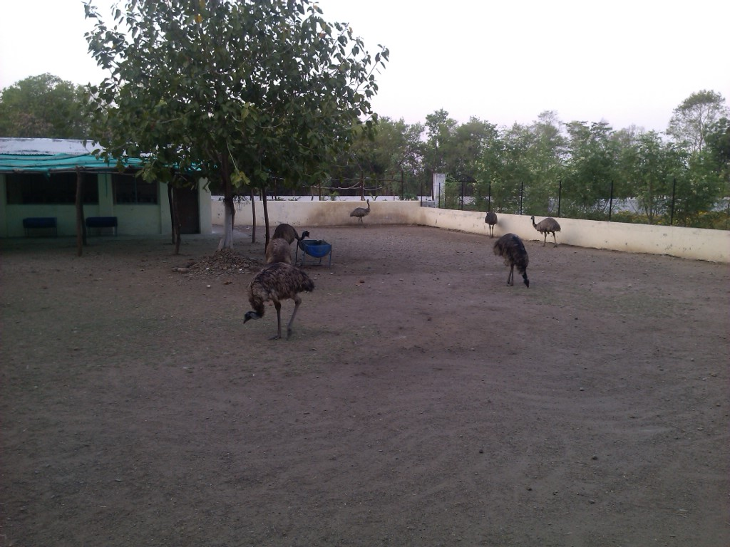 anandwan_sanctuary_animal